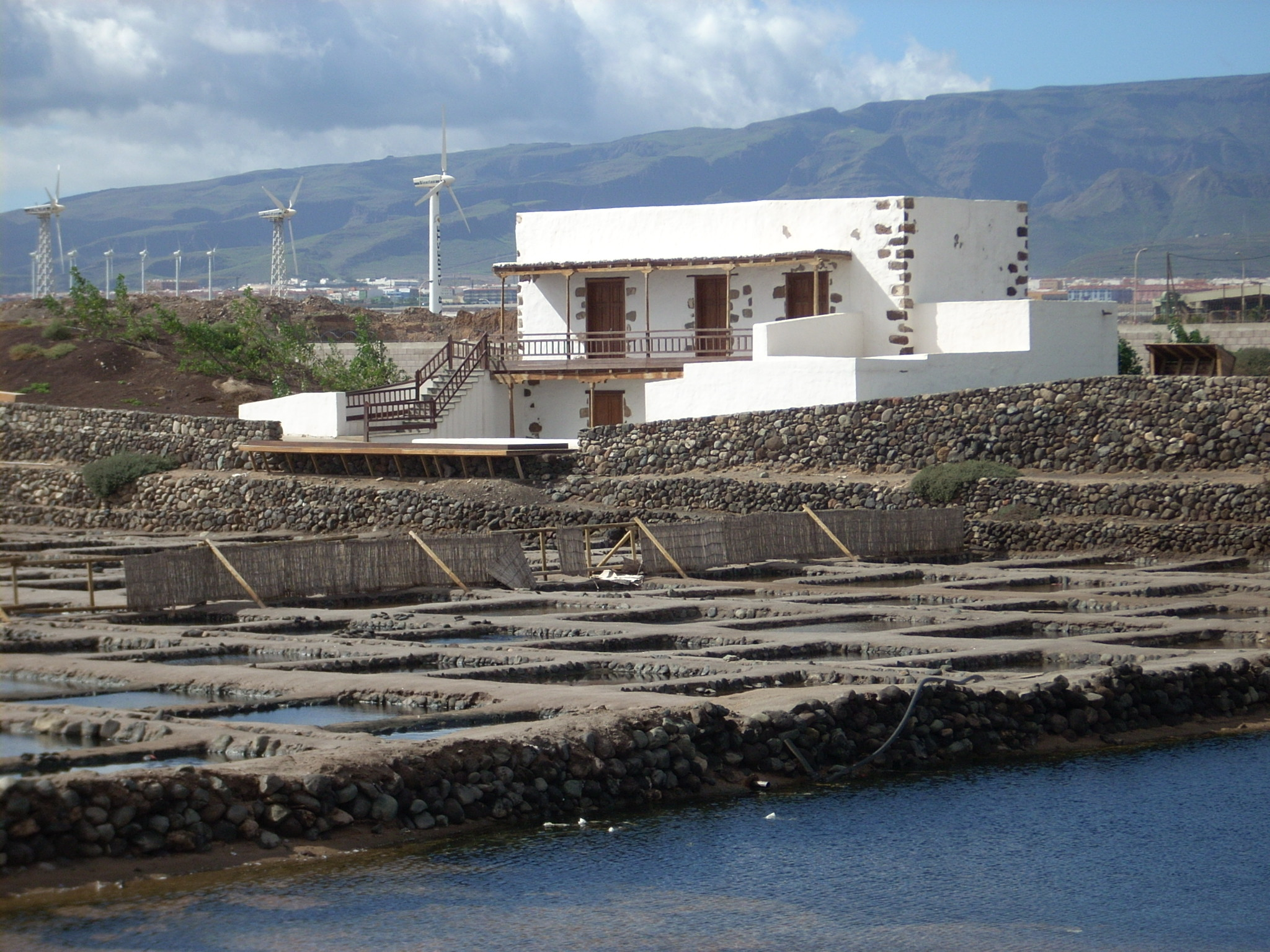 saltworks Arinaga